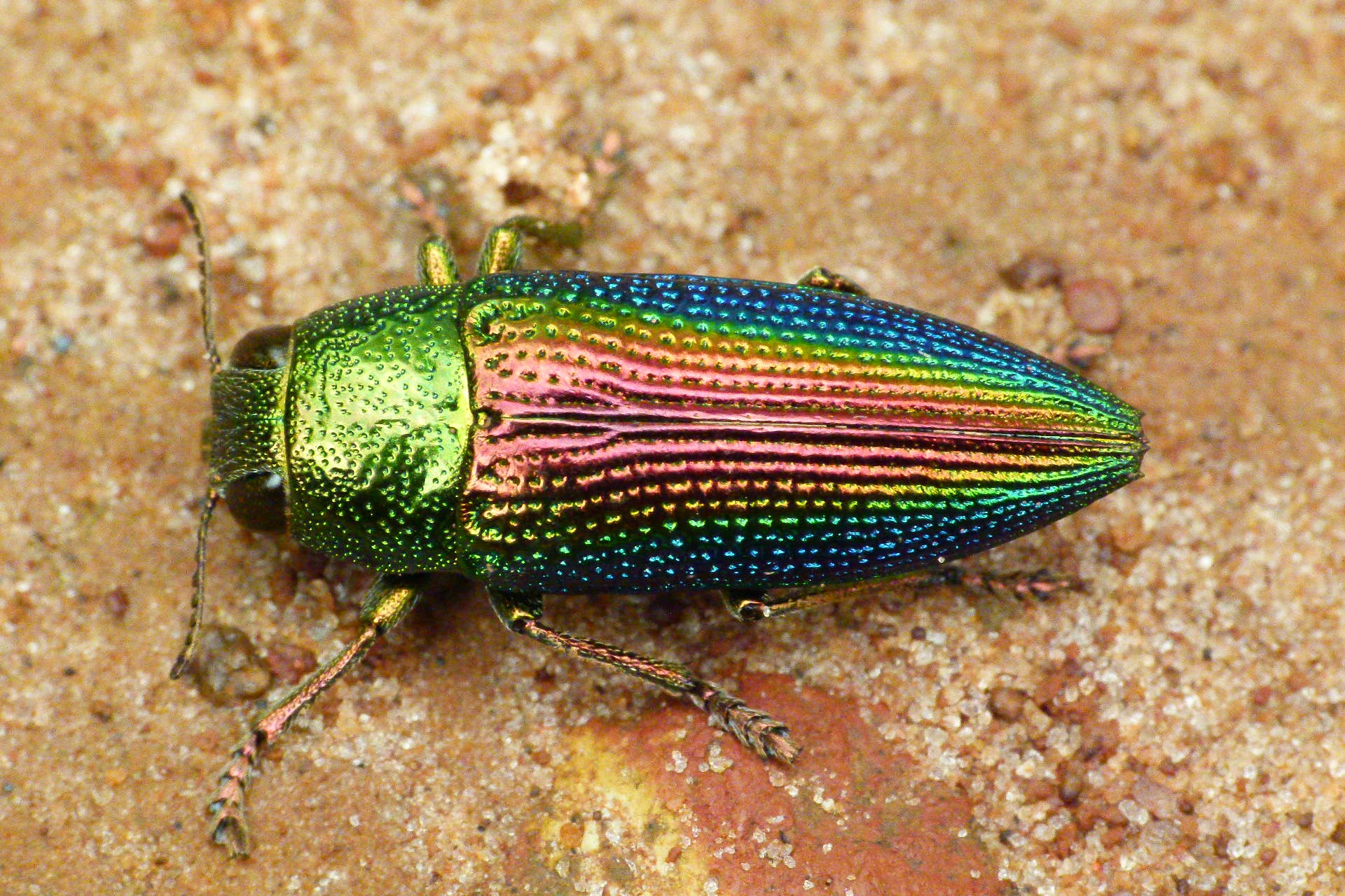 Lampetis fastuosa, Cerambycidae. GKVK, Bangalore